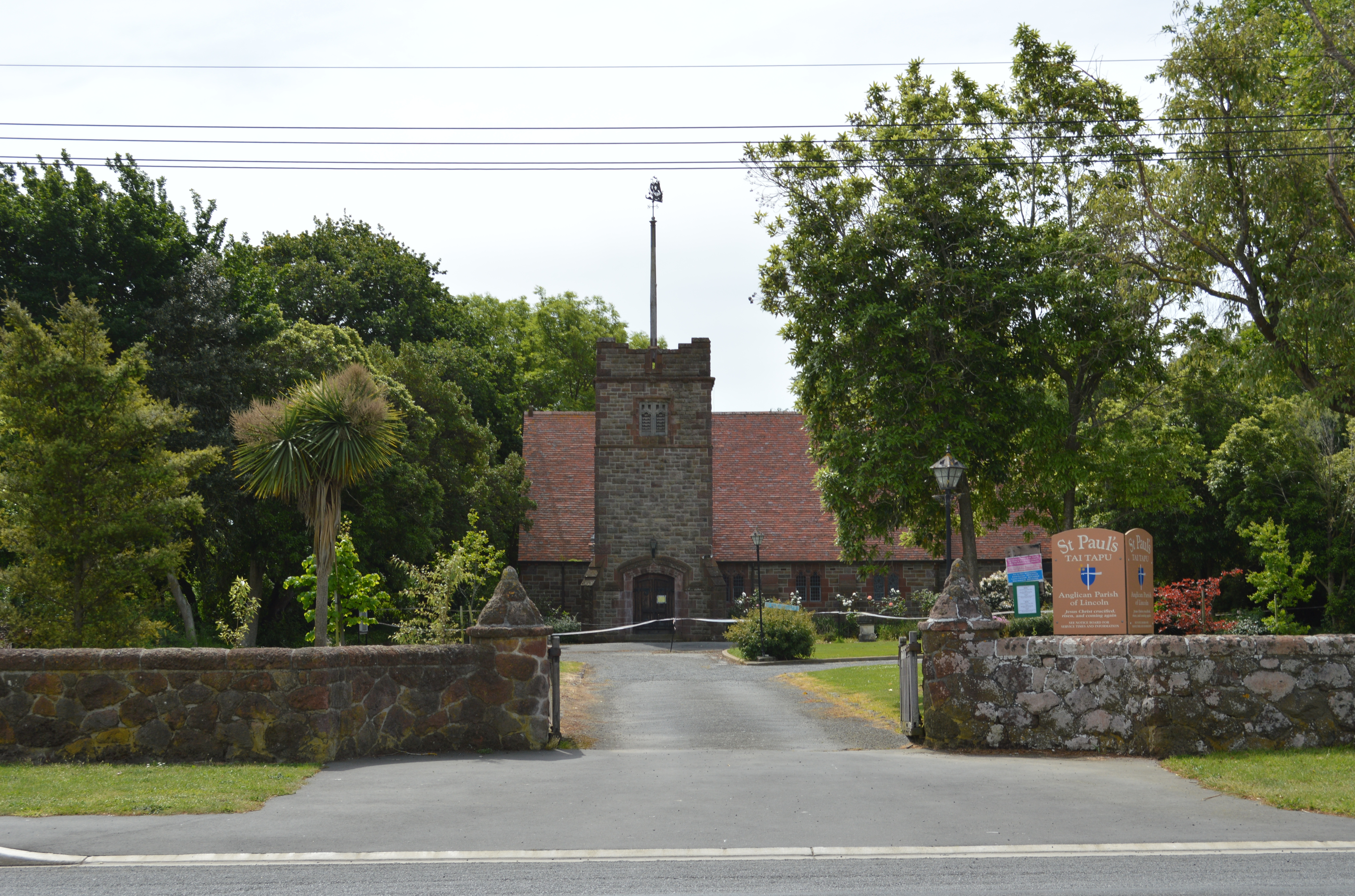 St Paul's Anglican church at Tai Tapu, New Zealand